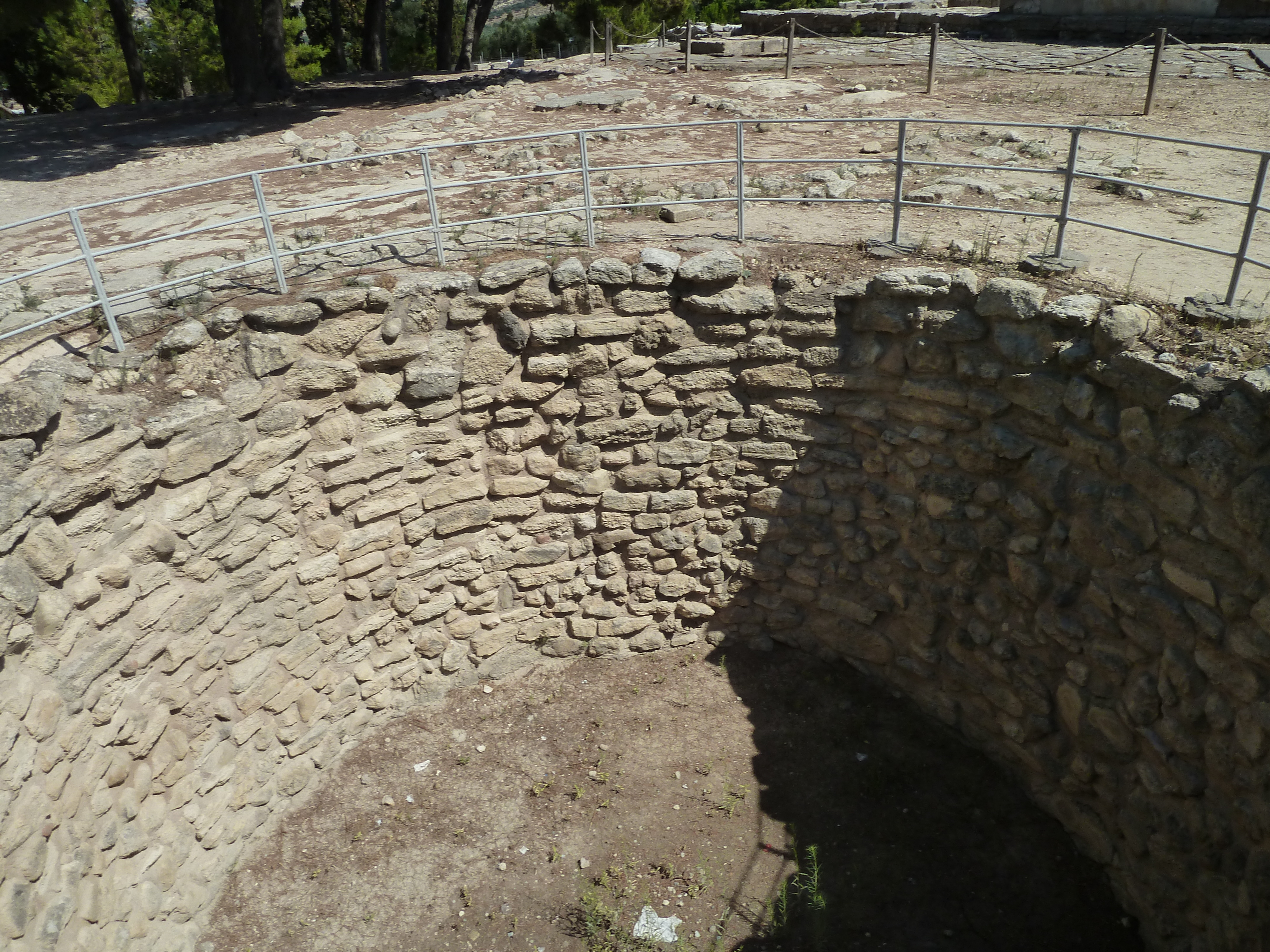 Minoean Pallace, Knossos, Crete, Greece